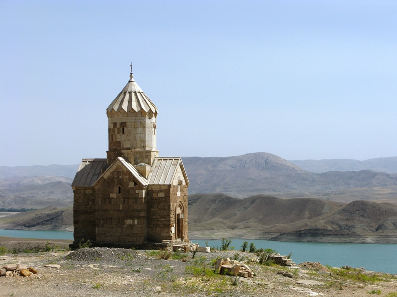 The Dzor Dzor Armenian church in Iran.